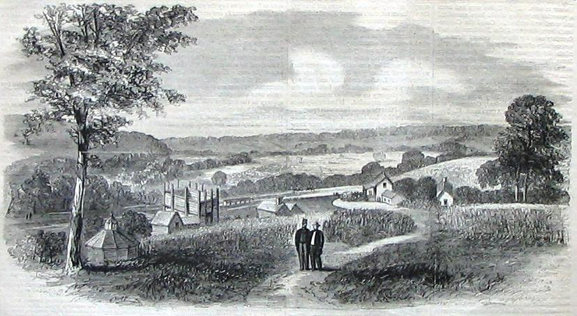 Dover Mills, on the James River and Kanawha Canal, Virginia